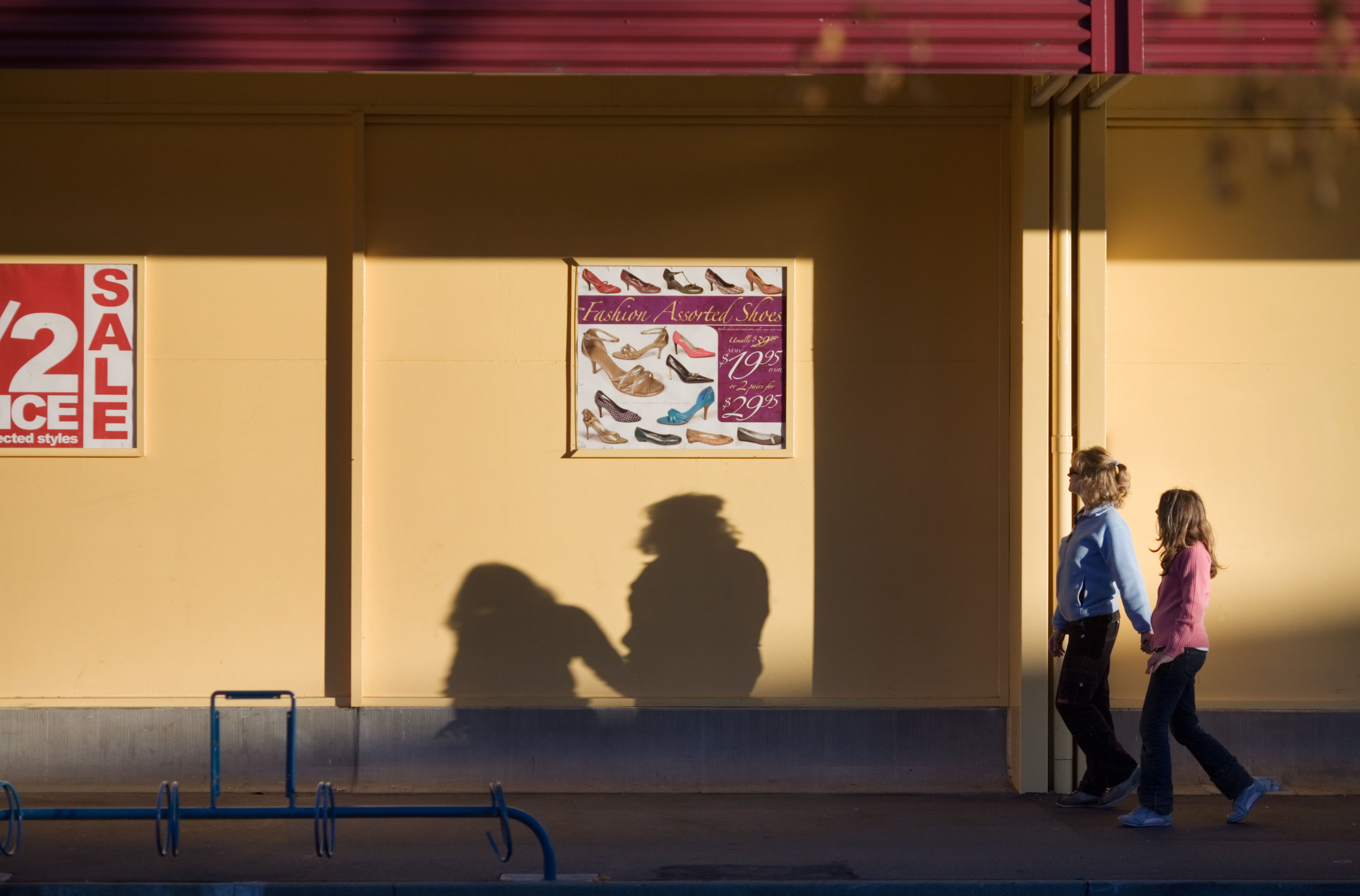 A woman casting shadows in a wall. New Zealand, 2006